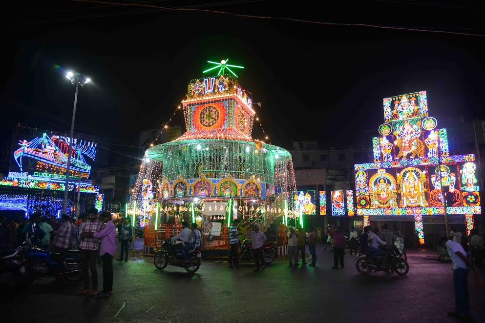 రాజమండ్రి దేవీచౌక్ పేజీలోకి